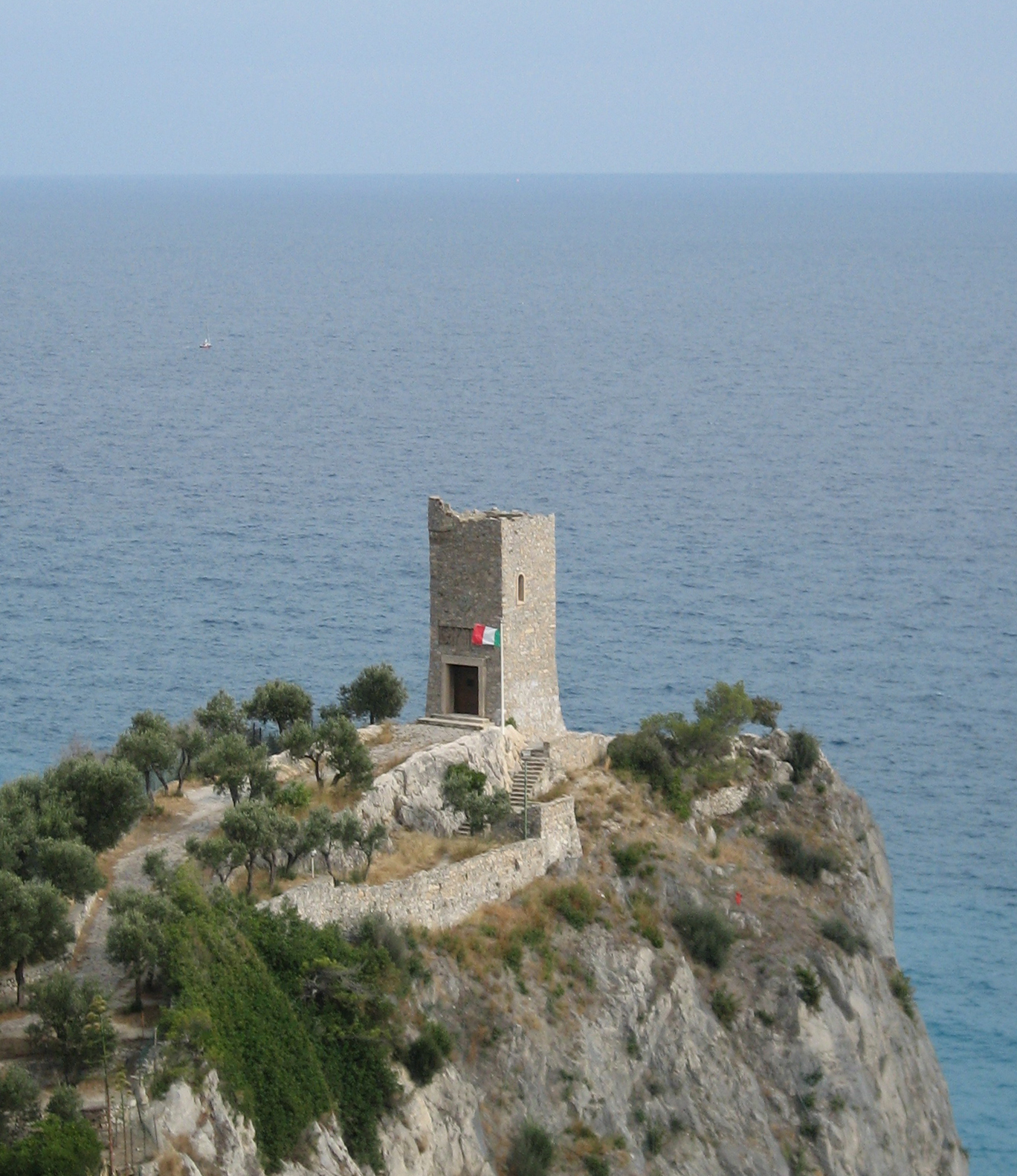 Mausoleum for General Enrico Caviglia, San Donato Tower Finale Ligure